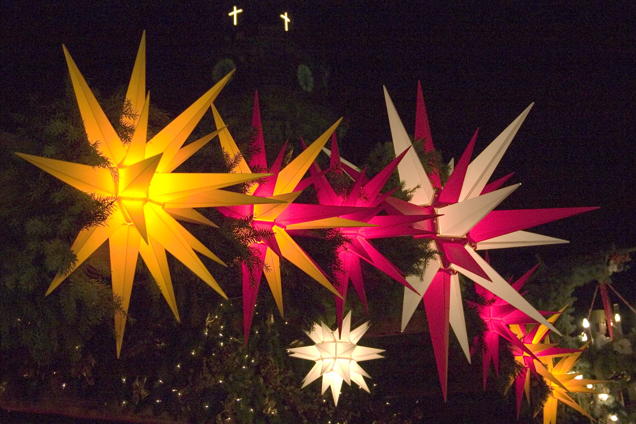 Moravian Stars in the Strietzelmarkt in Dresden